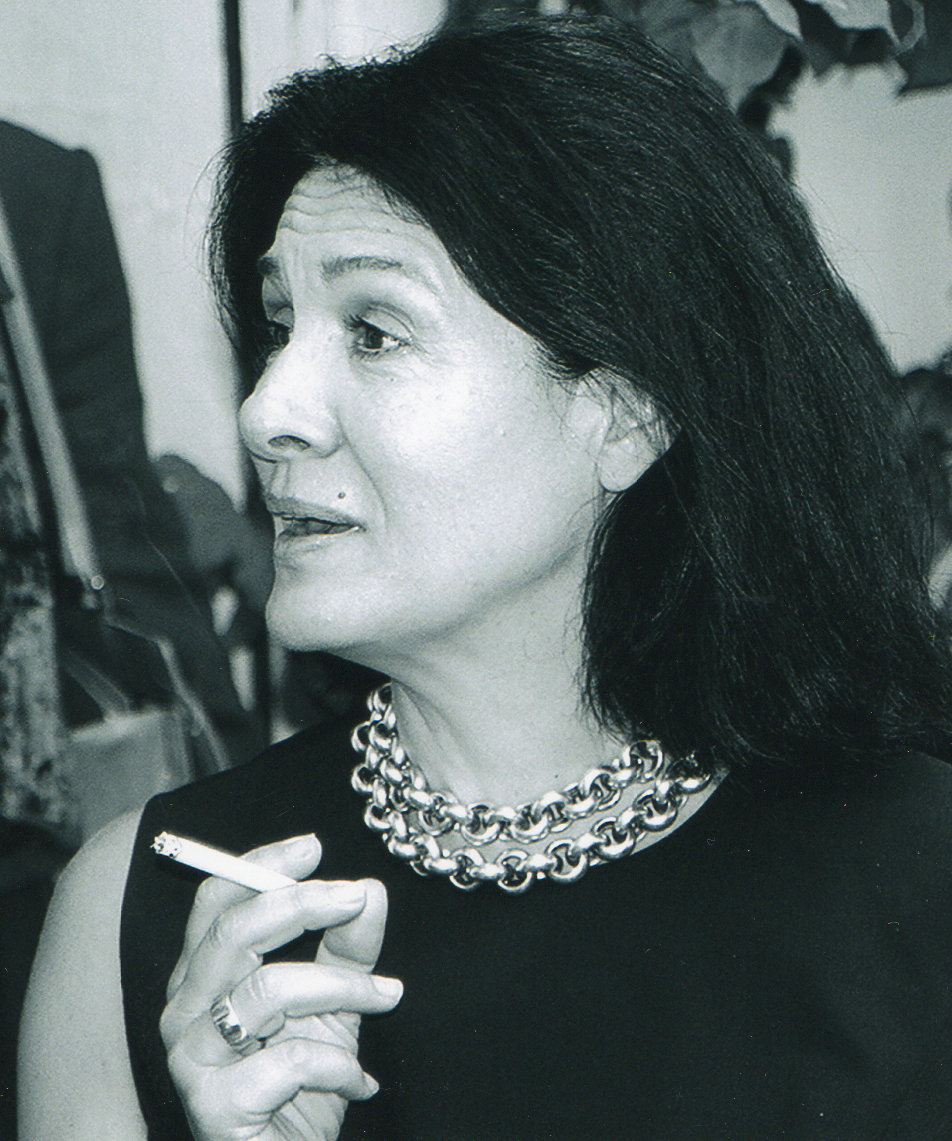 PHOTOGRAPHS OF PALOMA PICASSO IN MALAGA. PHOTO BY EDUARDO CORREA